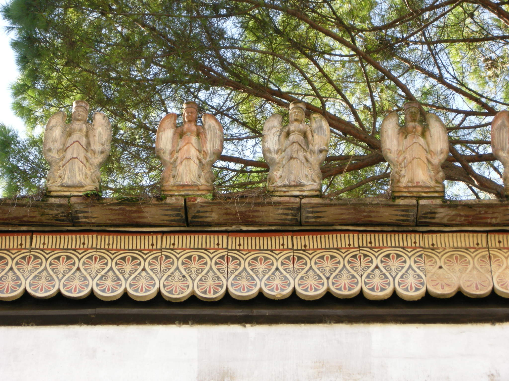 Detail from the 19th century reconstruction of an Etruscan temple, in the courtyard of the Villa Giulia Museum in Rome, Italy.